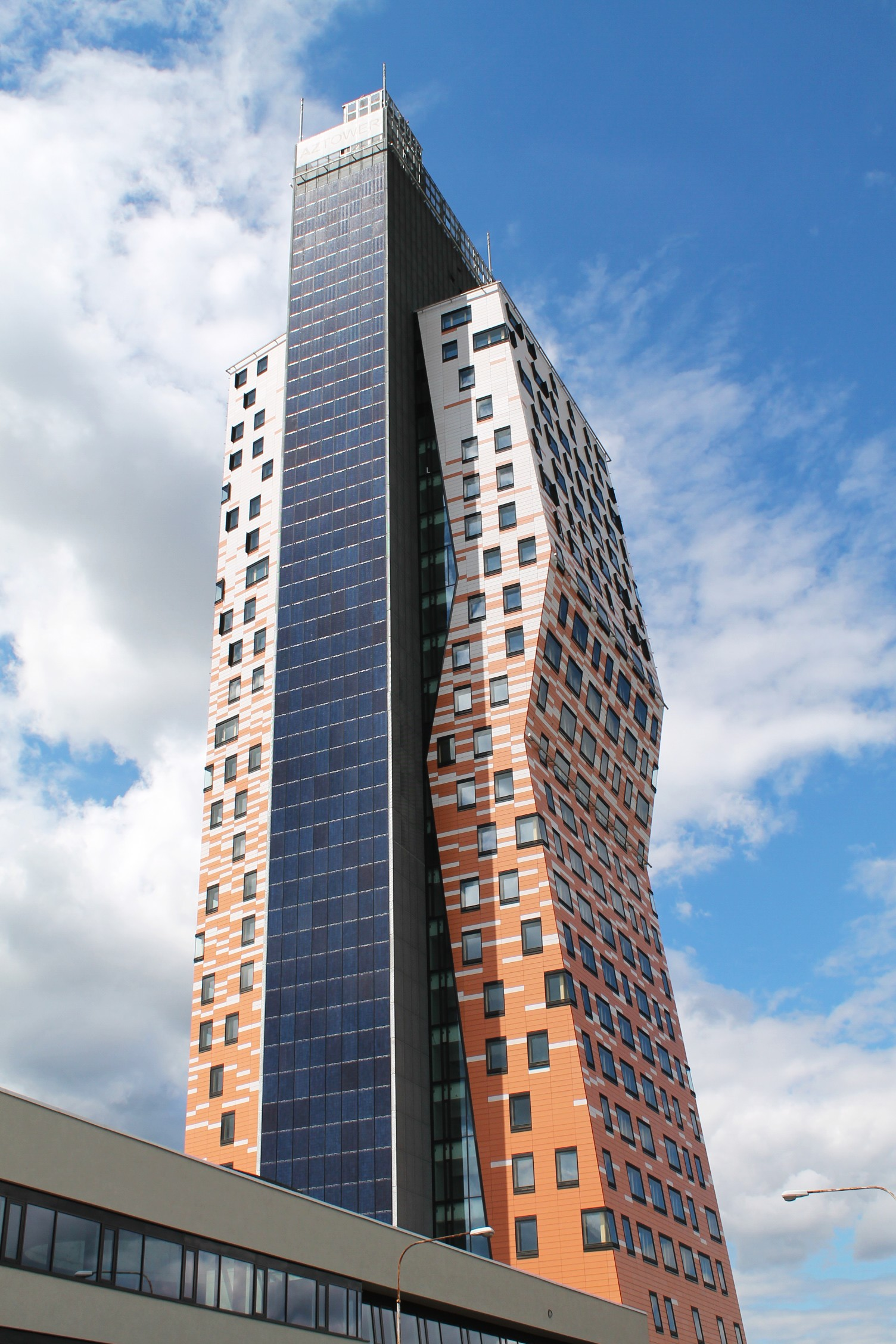 AZ Tower, Brno, Czech Republic - OpenStreetMap(Info)